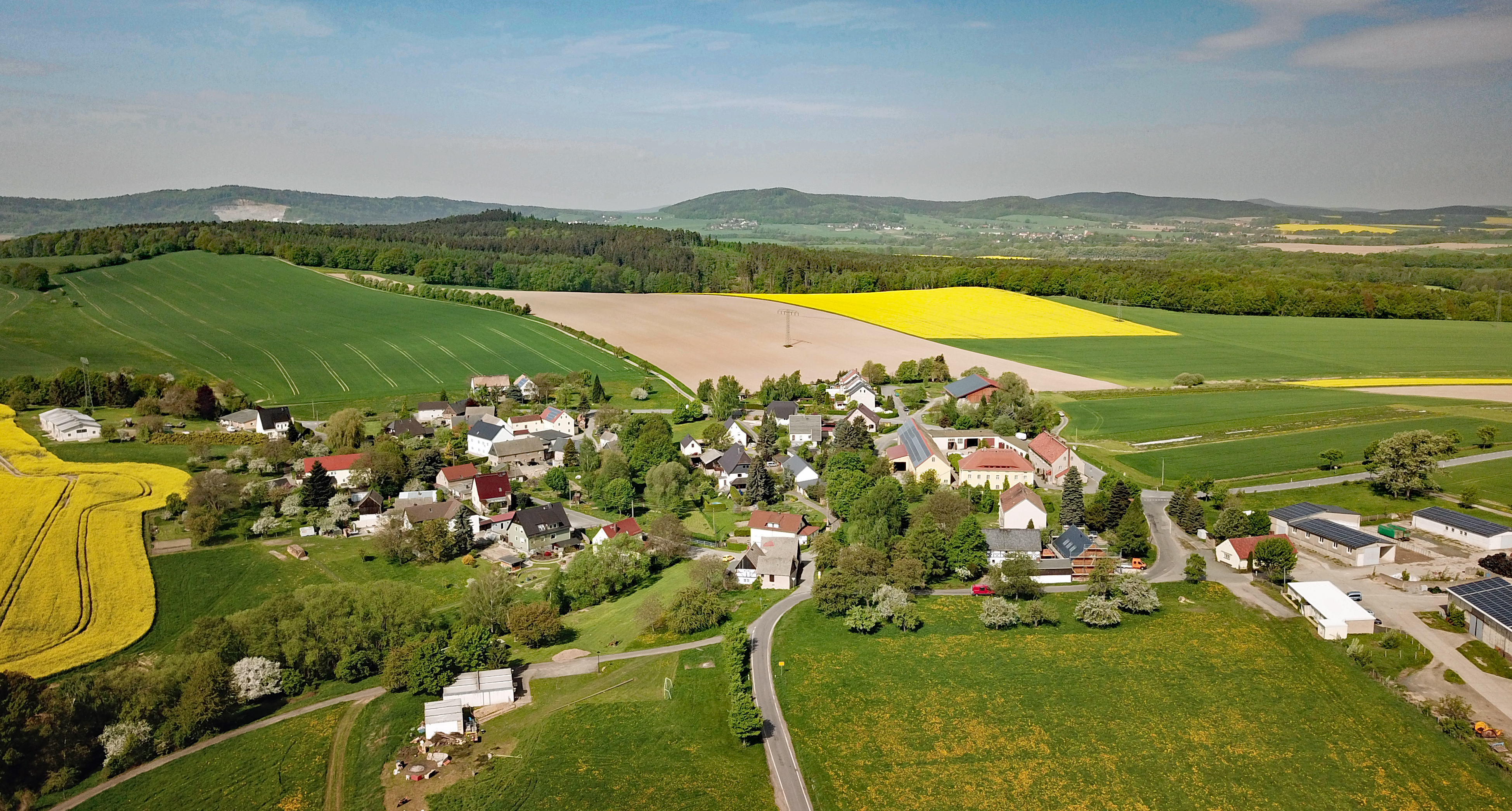 Kaschwitz (Panschwitz-Kuckau, Saxony, Germany) Hornjoserbsce: Powětrowy wobraz Kašec